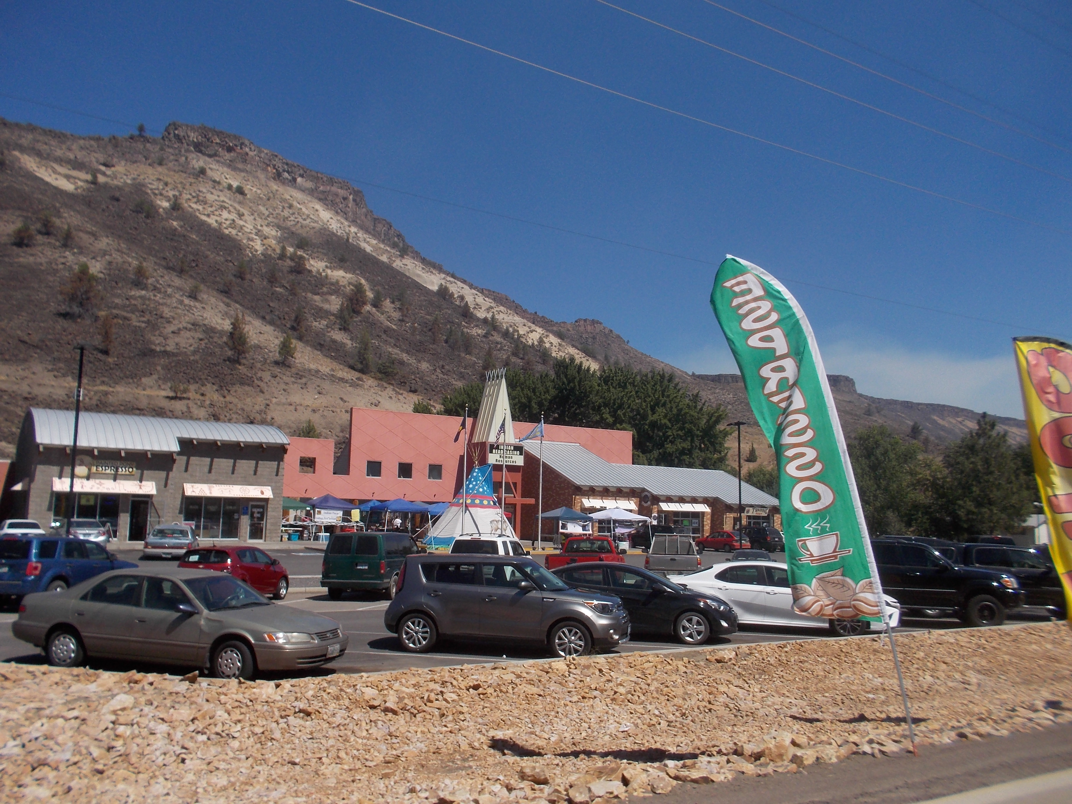 Warm Springs Reservation